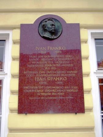 Bilingual memorial plaque commemorating Ukrainian poet and writer Ivan Franko, Prague Žofín.